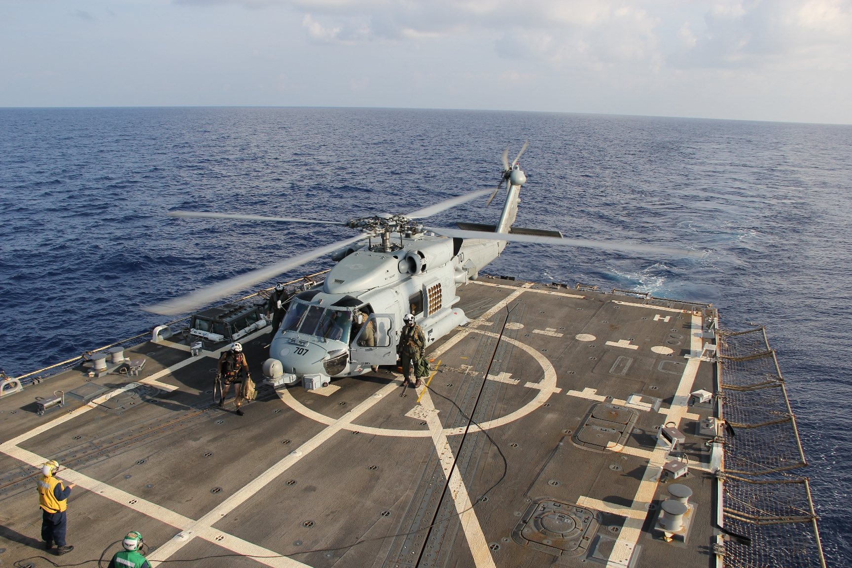 GULF OF THAILAND (March 9, 2014) A U.S. Navy MH-60R Sea Hawk helicopter from Helicopter Maritime Strike Squadron (HSM) 78, Det 2, assigned to the guided-missile Destroyer USS Pinckney (DDG 91), lands aboard Pinckney during a crew swap before returning on task in the search and rescue for the missing Malaysian airlines flight MH370. The flight had 227 passengers from 14 nations, mainly China, and 12 crew members. According to the Malaysia Airlines website, three Americans, including one infant, were also aboard. (U.S. Navy photo by Senior Chief Petty Officer Chris D. Boardman/Released) 140309-N-ZZ999-007 Join the conversation navylive.dodlive.mil